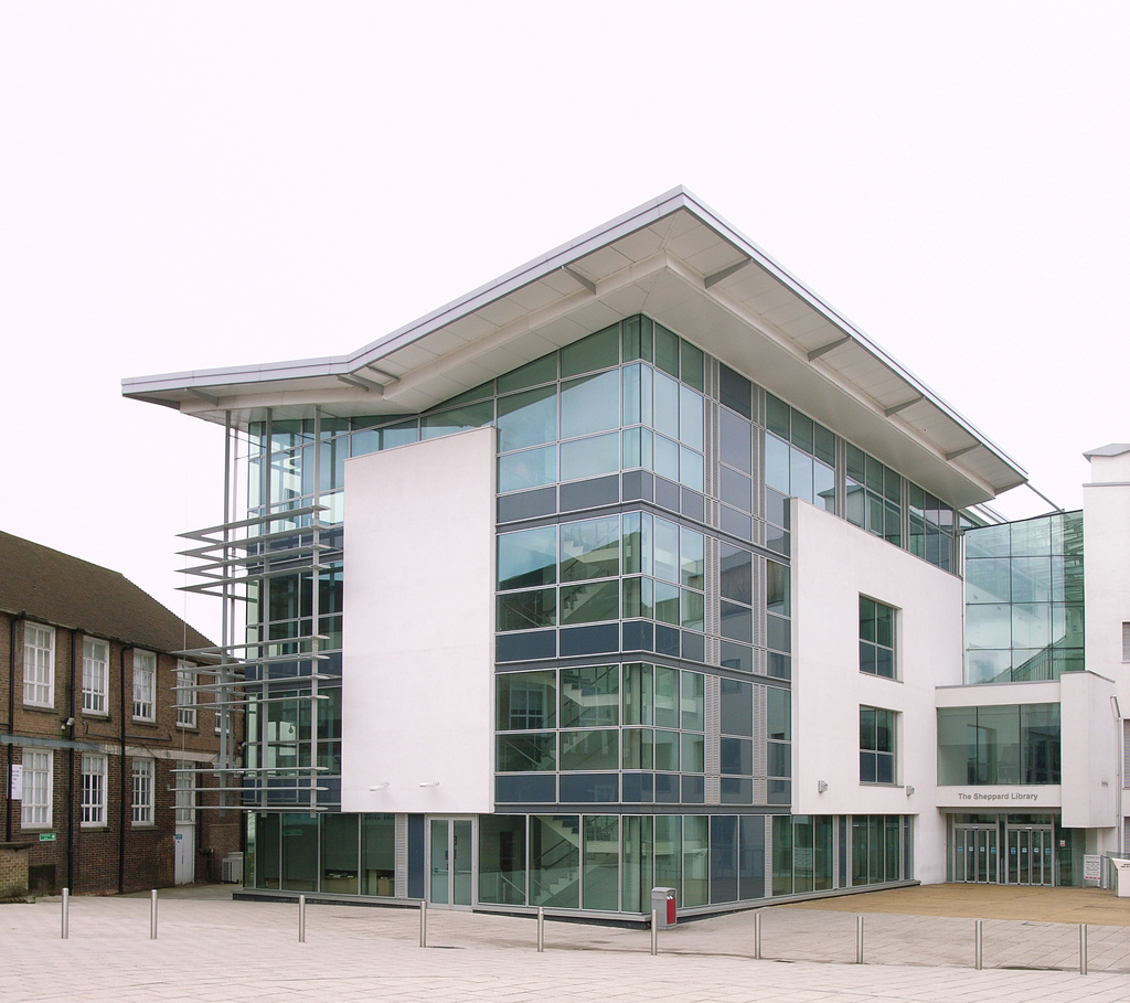 Library Building, Middlesex University, just off Church Road, Hendon, North London